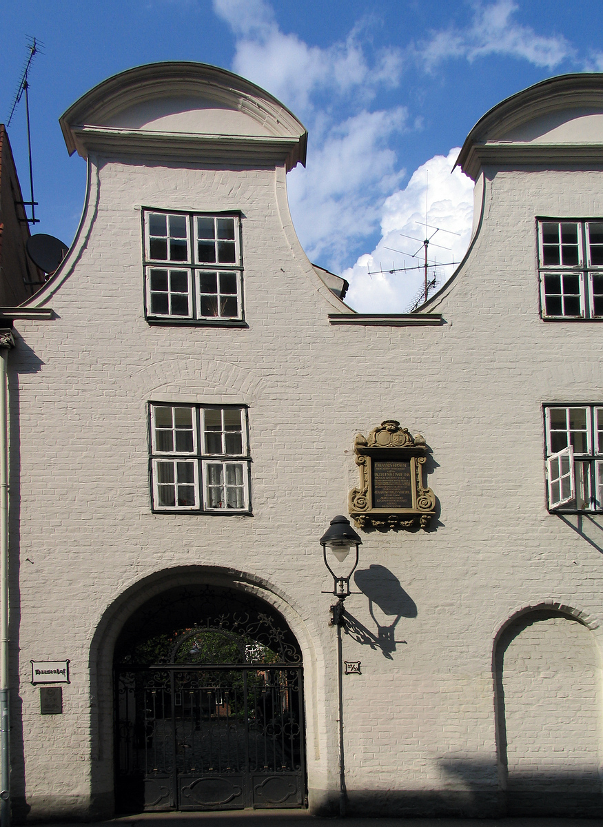 Haasen Courtyard Lübeck